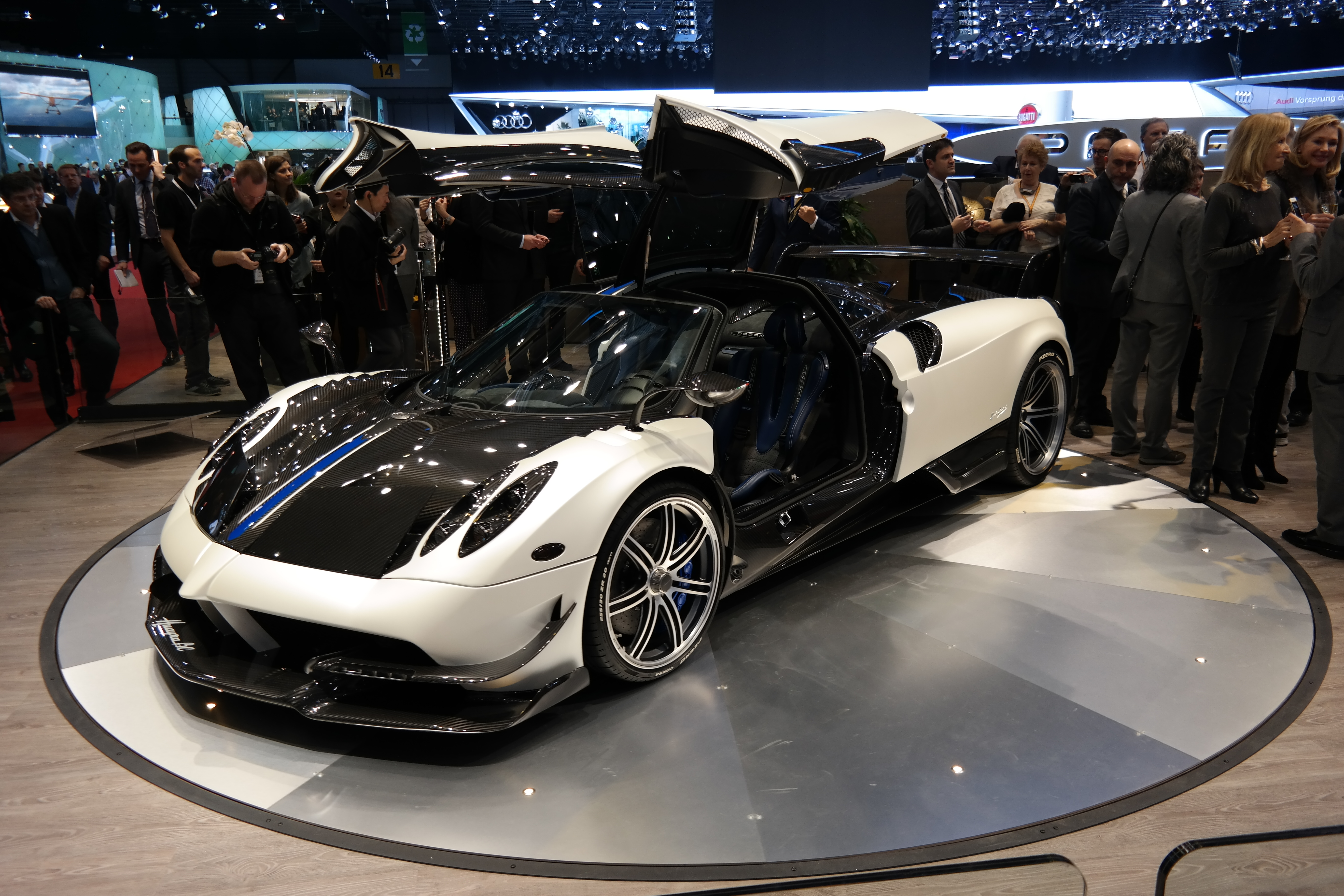 Geneva Motor Show 2016 (photo taken on the first press day)